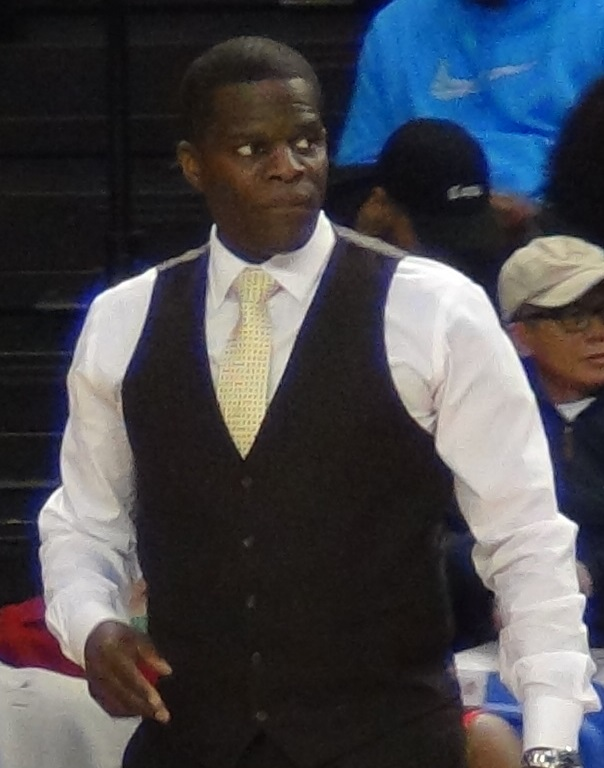 Bowling Green State University men's basketball head coach Michael Huger at the Event Center in San Jose, Calif. on Dec. 18, 2016 for Bowling Green's game against San Jose State.